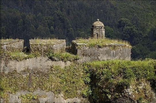 Corral Fort. I took this photo.